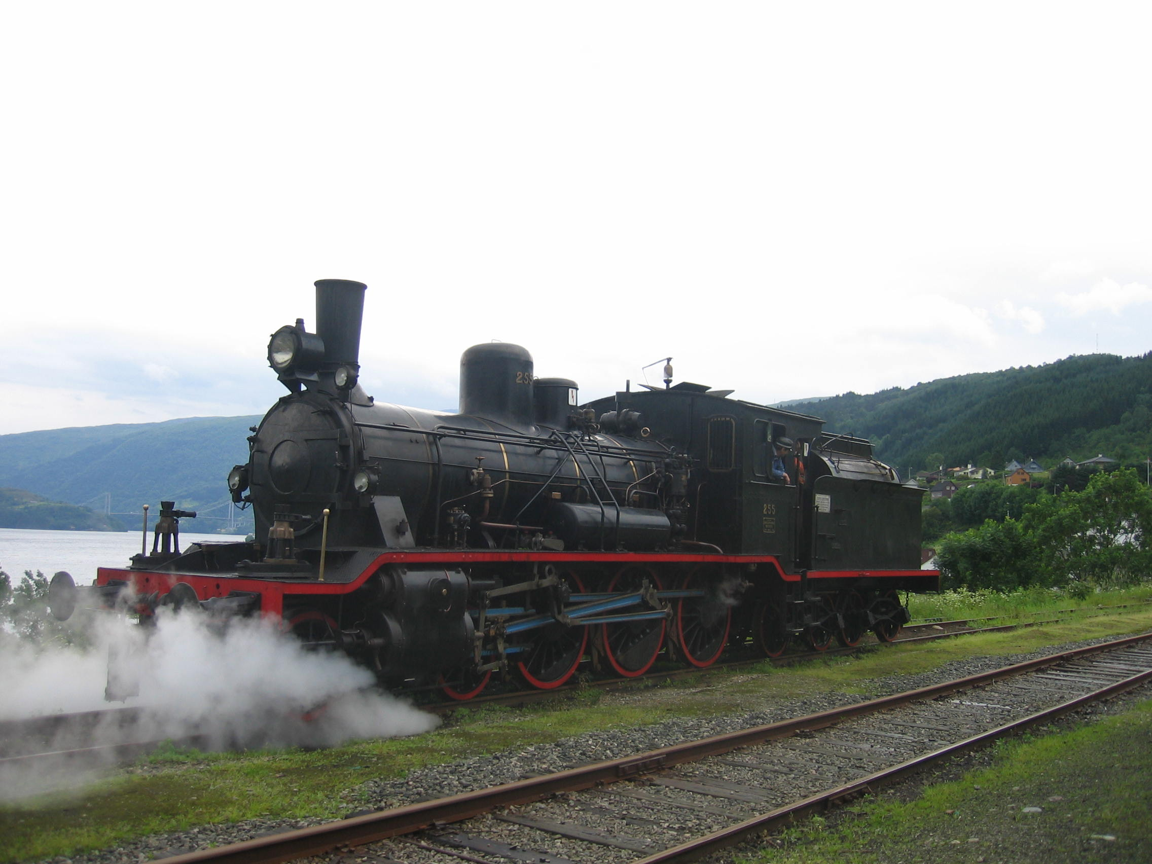 Restored locomotive at Garnes.